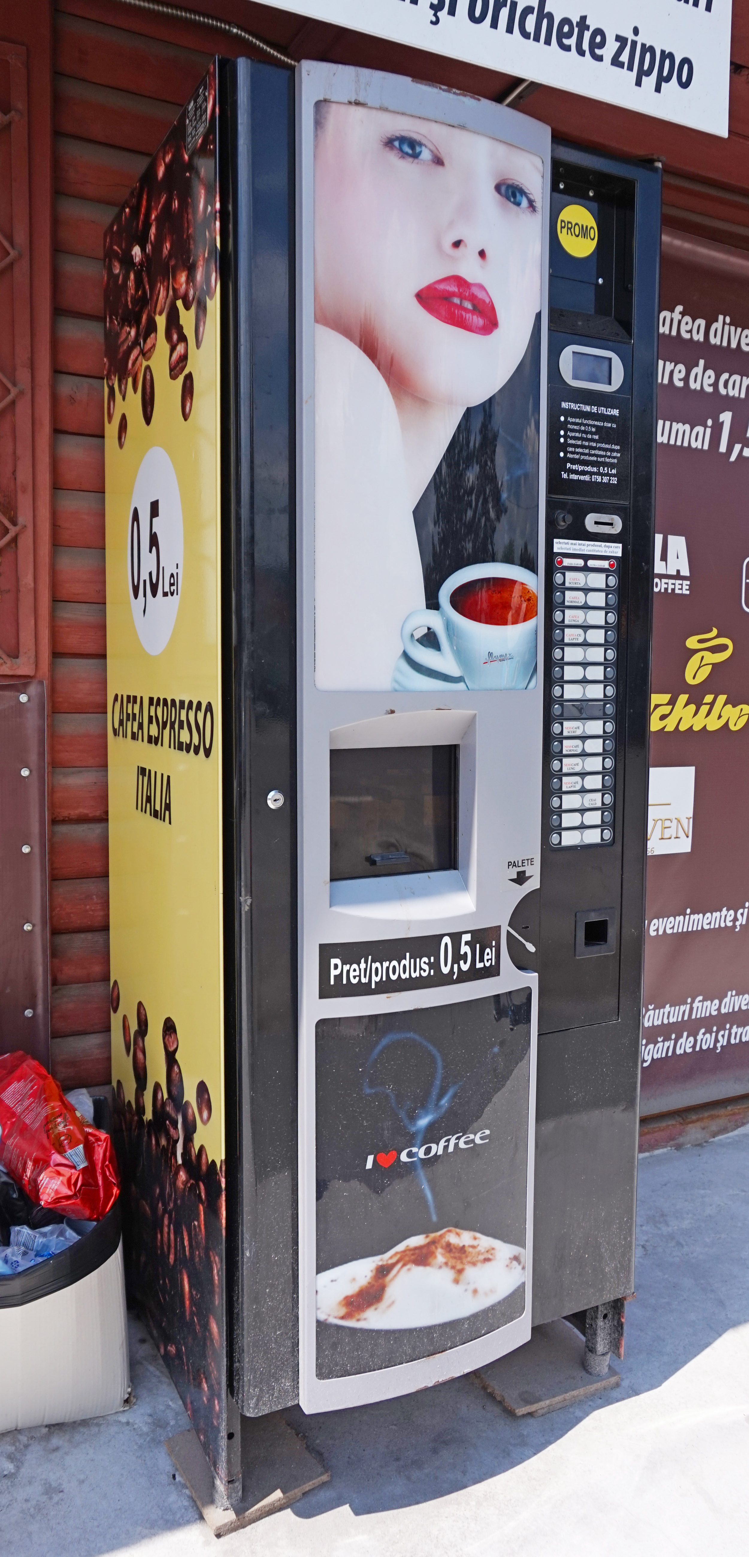 Coffee vending machine in Romania. This photograph was taken with a Sony Alpha a5000.